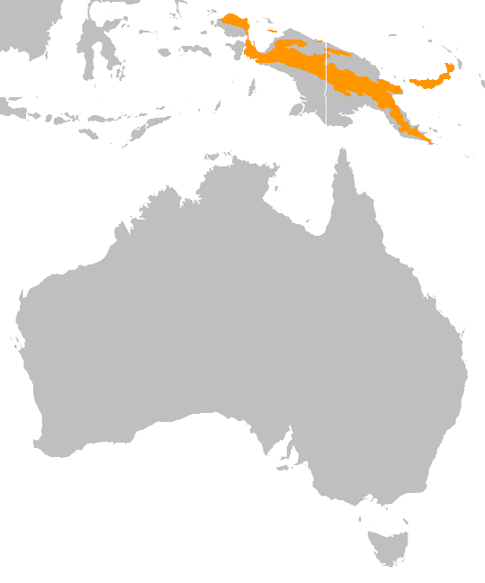 Casuarius bennetti distribution map, based on IUCN data.